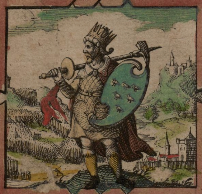 Ælla of the South Saxons